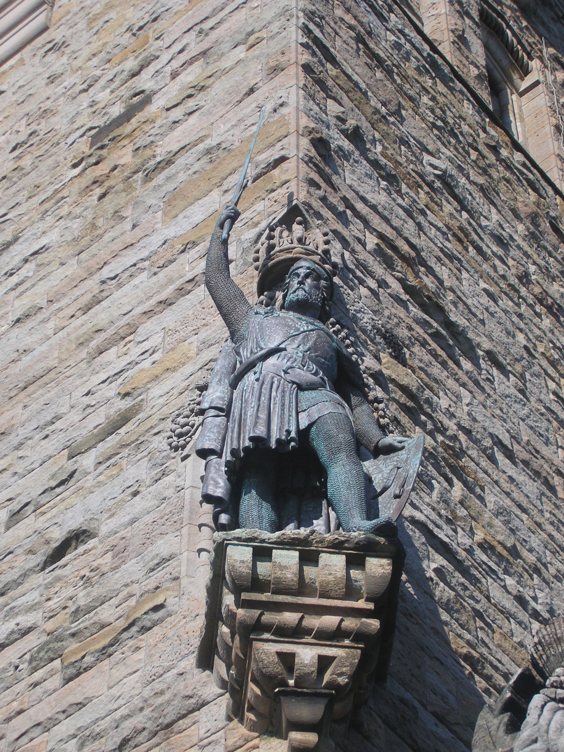 Statue of William Wallace in the Wallace Monument